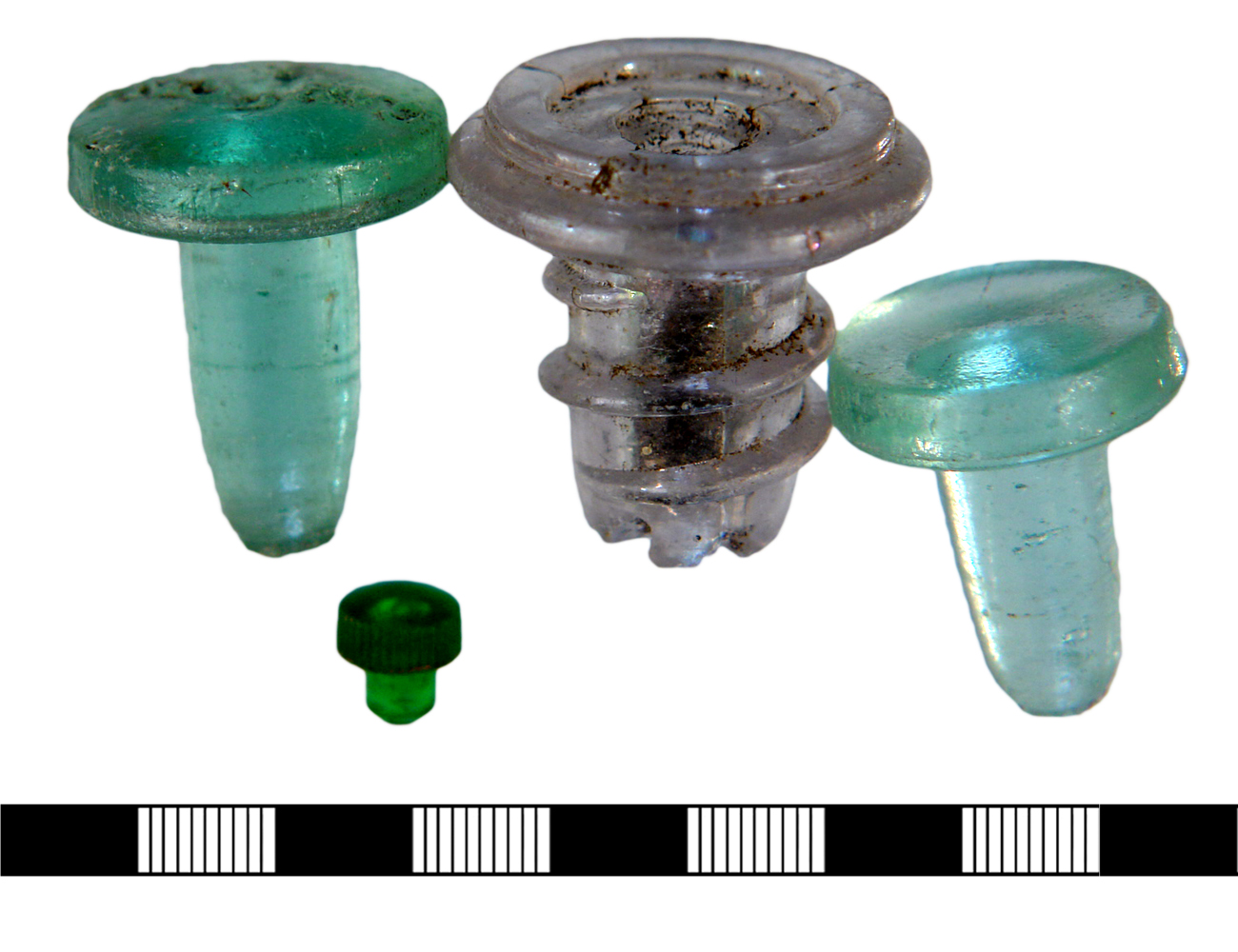 Glass and plastic Three glass stoppers, one with screw thread, one with legend CARTONS; and a smaller green plastic stopper. Lengths: 31.28mm, 32.30mm, 34.74mm and 10.45mm; Weights: 13.04gms, 24.71gms, 15.34gms and 0.46gms. Suggested date: Modern, 1850-1950.